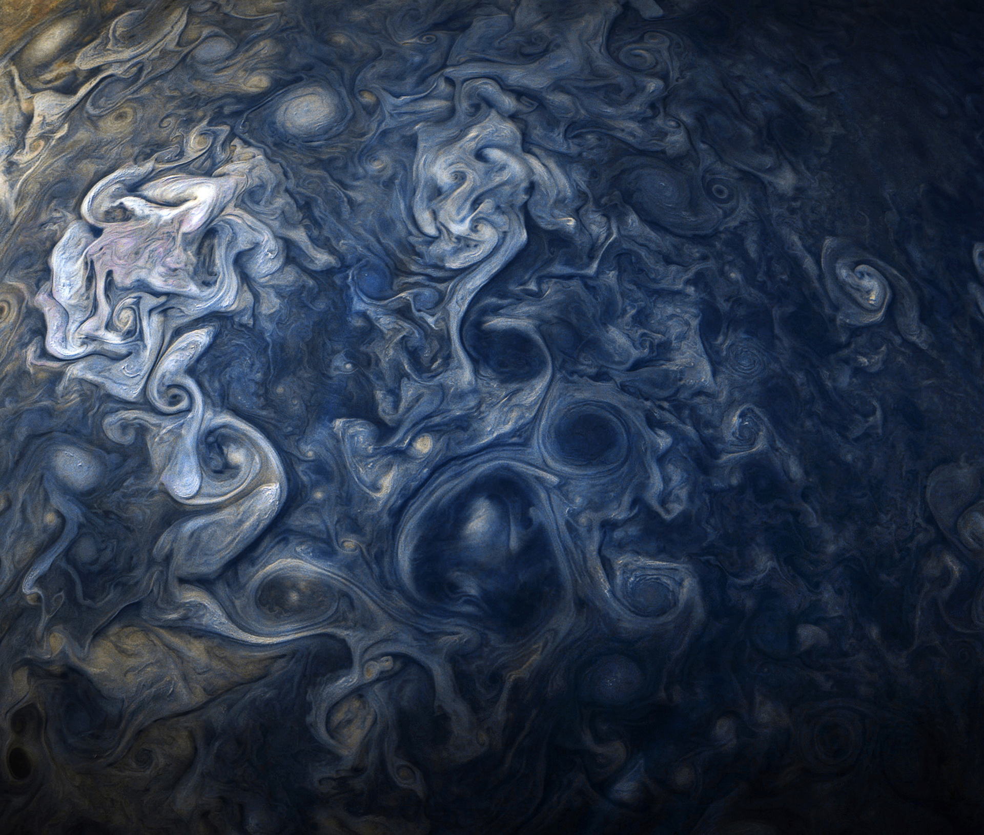 See Jovian clouds in striking shades of blue in this new view taken by NASA's Juno spacecraft. The Juno spacecraft captured this image when the spacecraft was only 11,747 miles (18,906 kilometers) from the tops of Jupiter's clouds -- that's roughly as far as the distance between New York City and Perth, Australia. The color-enhanced image, which captures a cloud system in Jupiter's northern hemisphere, was taken on Oct. 24, 2017 at 10:24 a.m. PDT (1:24 p.m. EDT) when Juno was at a latitude of 57.57 degrees (nearly three-fifths of the way from Jupiter's equator to its north pole) and performing its ninth close flyby of the gas giant planet. The spatial scale in this image is 7.75 miles/pixel (12.5 kilometers/pixel). Because of the Juno-Jupiter-Sun angle when the spacecraft captured this image, the higher-altitude clouds can be seen casting shadows on their surroundings. The behavior is most easily observable in the whitest regions in the image, but also in a few isolated spots in both the bottom and right areas of the image. Citizen scientists Gerald Eichstädt and Seán Doran processed this image using data from the JunoCam imager. JunoCam's raw images are available at for the public to peruse and process into image products. More information about Juno is online at and NASA's Jet Propulsion Laboratory manages the Juno mission for the principal investigator, Scott Bolton, of Southwest Research Institute in San Antonio. Juno is part of NASA's New Frontiers Program, which is managed at NASA's Marshall Space Flight Center in Huntsville, Alabama, for NASA's Science Mission Directorate. Lockheed Martin Space Systems, Denver, built the spacecraft. Caltech in Pasadena, California, manages JPL for NASA.